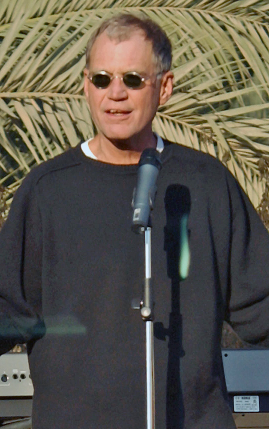 031224F5435R005 David Letterman, host of the Late Show, entertains coalition forces at the Coalition Provisional Authority (CPA) Headquarters building in Baghdad, Iraq, during Operation IRAQI FREEDOM.